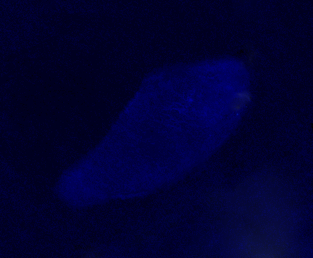 Grainger Bank is a coral reef in the South China Sea.